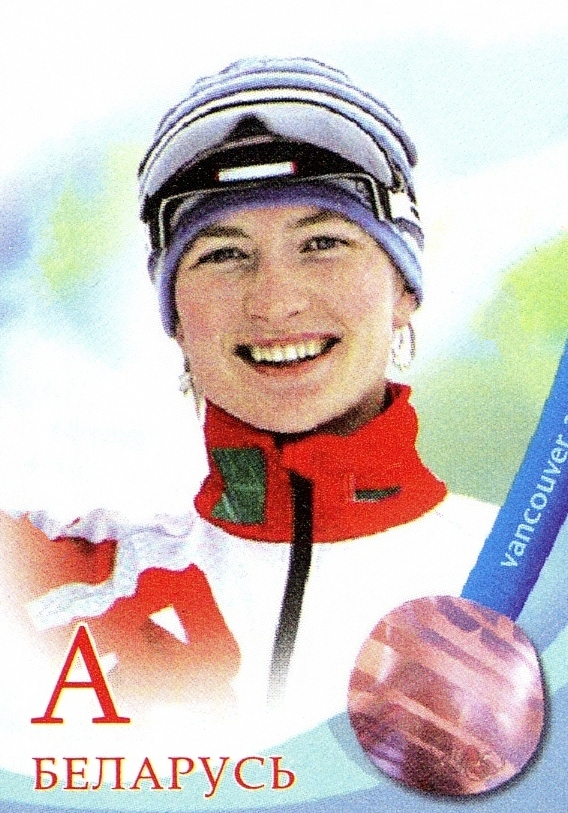 Darya Domracheva - Gold medalist XXII Olympic Winter Games in Sochi (biathlon)